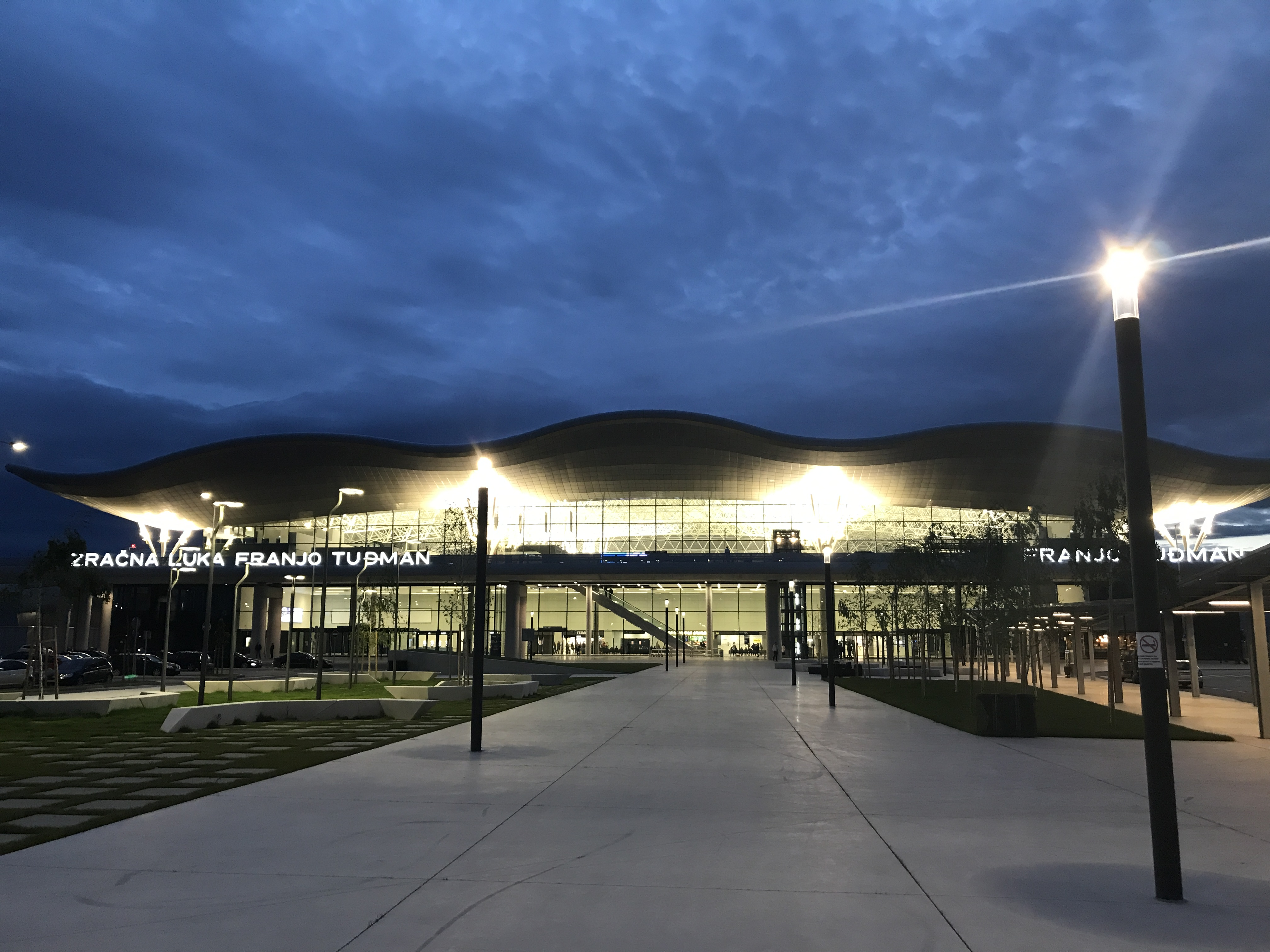 The exterior of Franjo Tuđman Airport in Zagreb in May 2017.